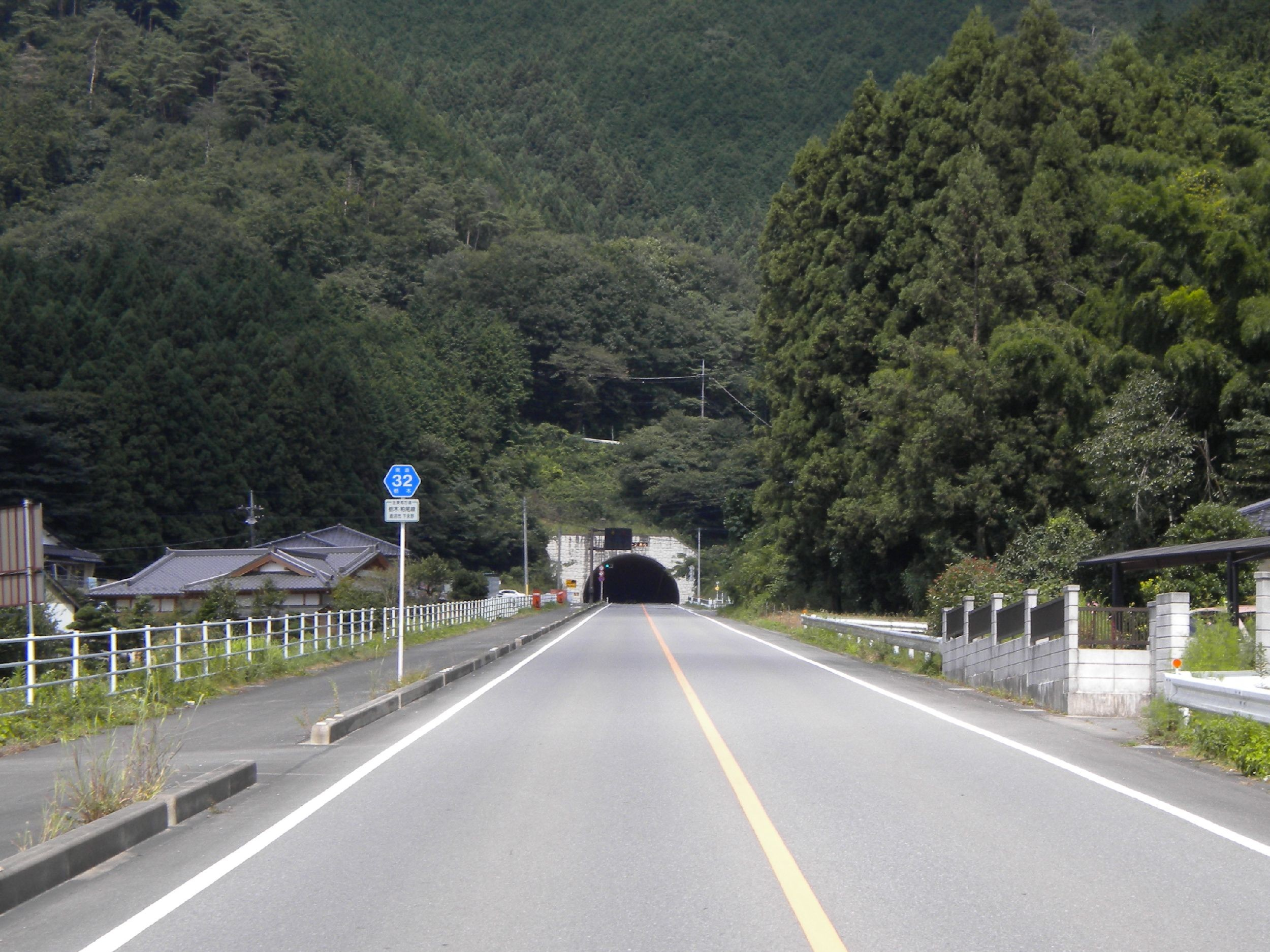 The Tochigi Prefectural Road Route 32 in Shimonagano, Kanuma City